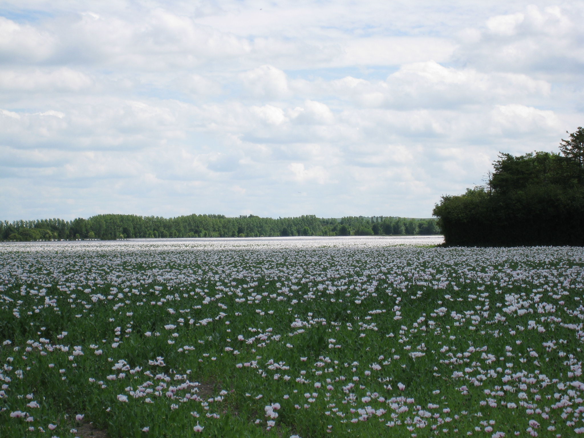 Field at Harwell, Oxfordshire where opium poppies were being grown for medicinal use